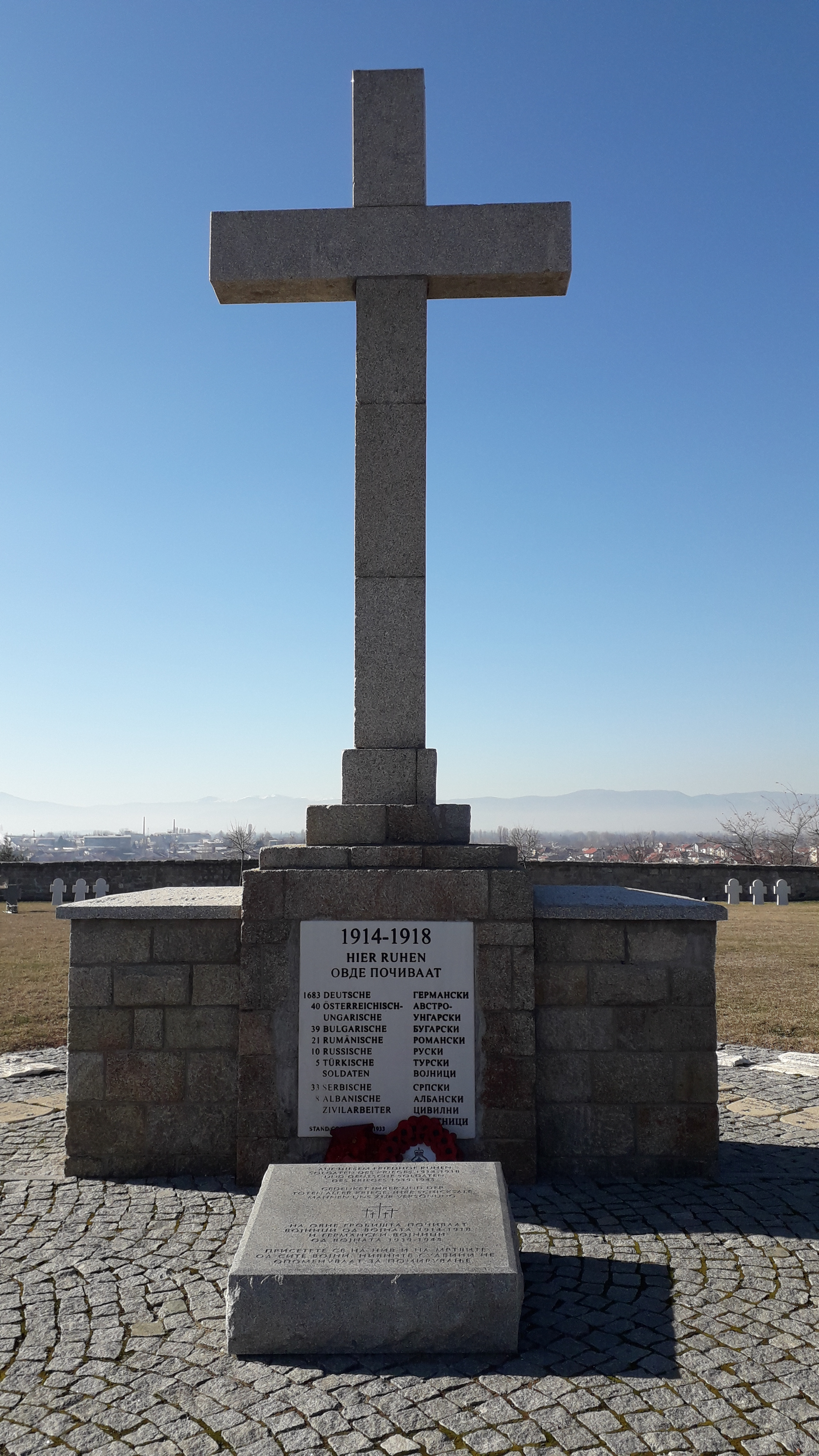 German-bulgarian military graveyard, Prilep 2